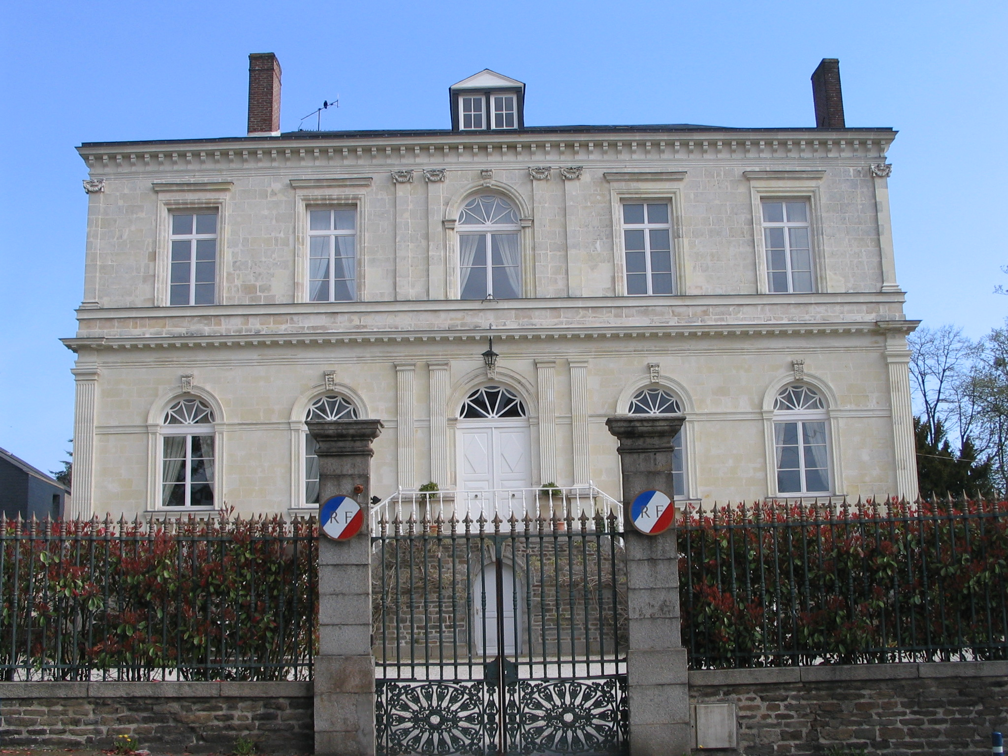 The sous-préfecture (Government's local representative's building) of Mayenne, Mayenne, France.